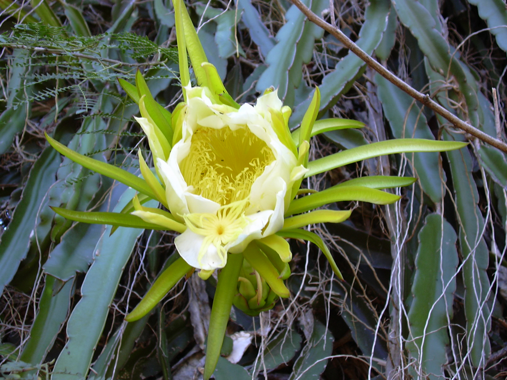 Hylocereus undatus (flower). Location: Maui, Baldwin Ave